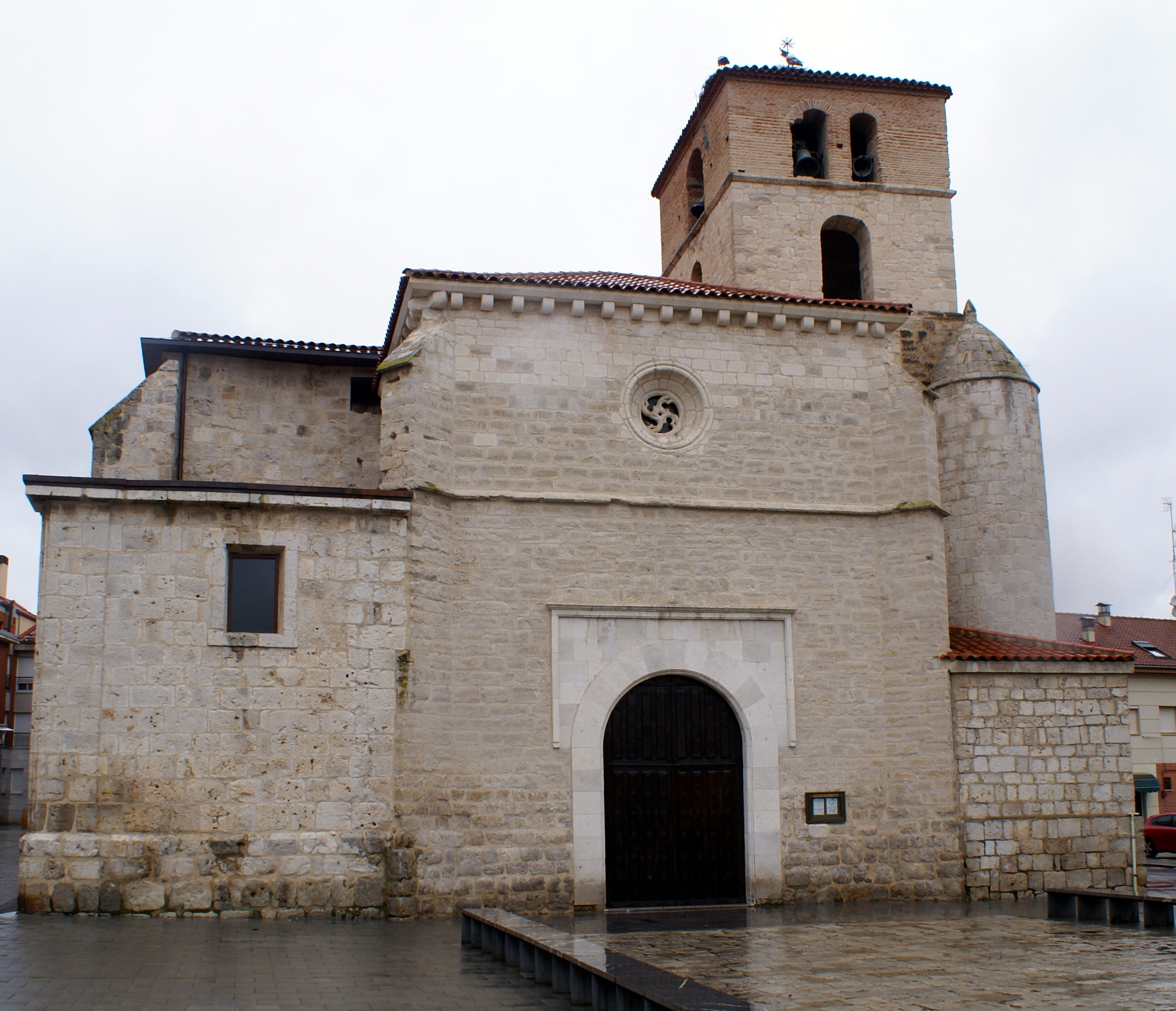 Church of Nuestra Señora de la Asunción, Laguna de Duero, Valladolid, Spain.